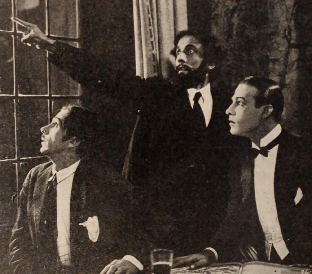 Bowditch M. Turner, Nigel De Brulier, and Rudolph Valentino in the American film The Four Horsemen of the Apocalypse (1921).